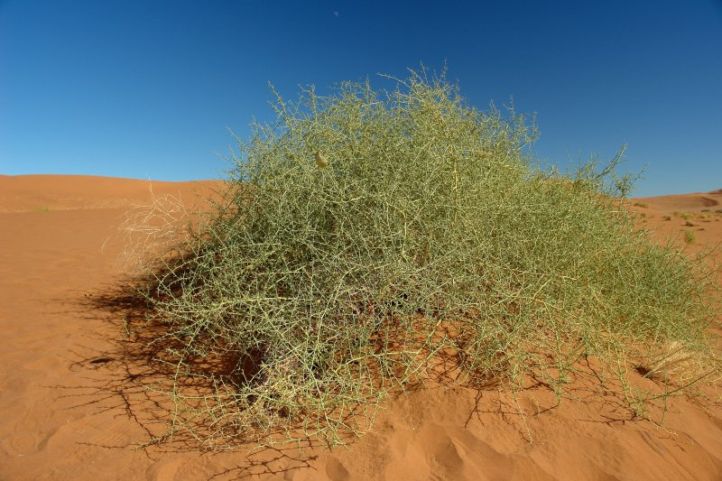 Acanthosicyos horridus bush in Namibia